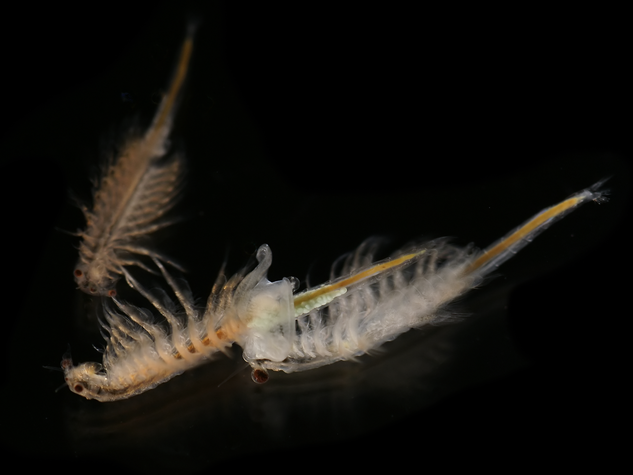 Brine shrimp. Laboratory picture